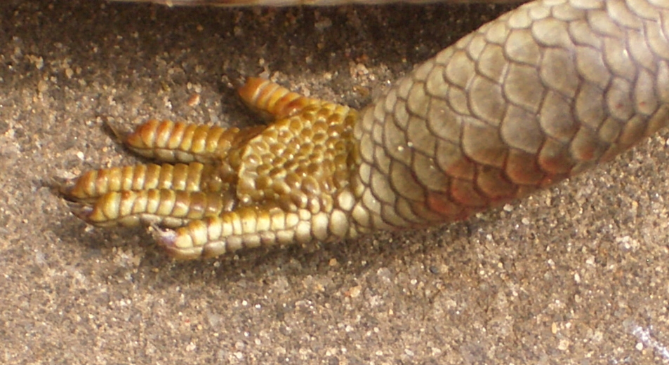 The hand of a blue-tongue skink (I suppose). The lizard was seen, dead, on a roadside near Katoomba, NSW. Picture cleaned up (removing insects) and cropped.